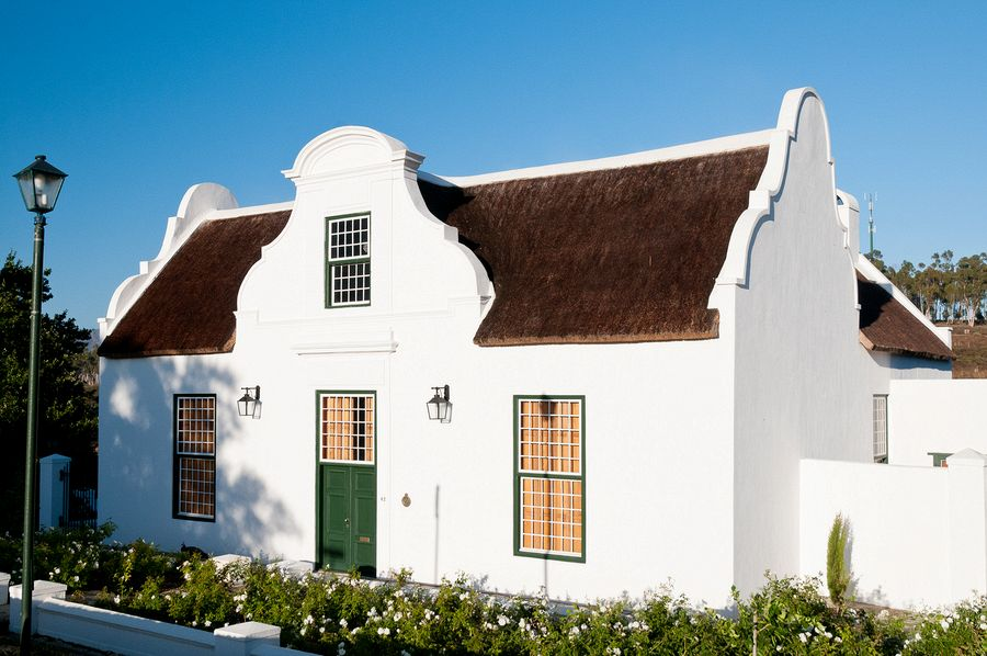 Ballotina, 43 Church Street, Tulbagh. This house was probably designed by the well-known Thibault and built in 1815 for the widow of the Reverend H. W. Ballot. The strange geometric gable is exceptional. Elizabeth Wilhelmina Cruywagen, widow of Ds H. W. Ballot, after her husband's death in 18 Type of site: House Previous use: Residential. Current use: Residential. This media shows a South African Protected Site with SAHRA file reference 9/2/094/0016.